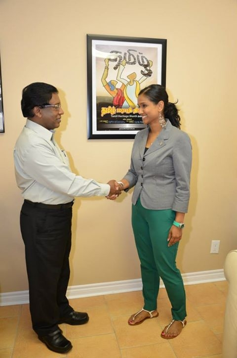 Rathika Sitsabaiesan, Member of the Canadian Parliament with E. Saravanapavan, Member of the Sri Lankan Parliament.